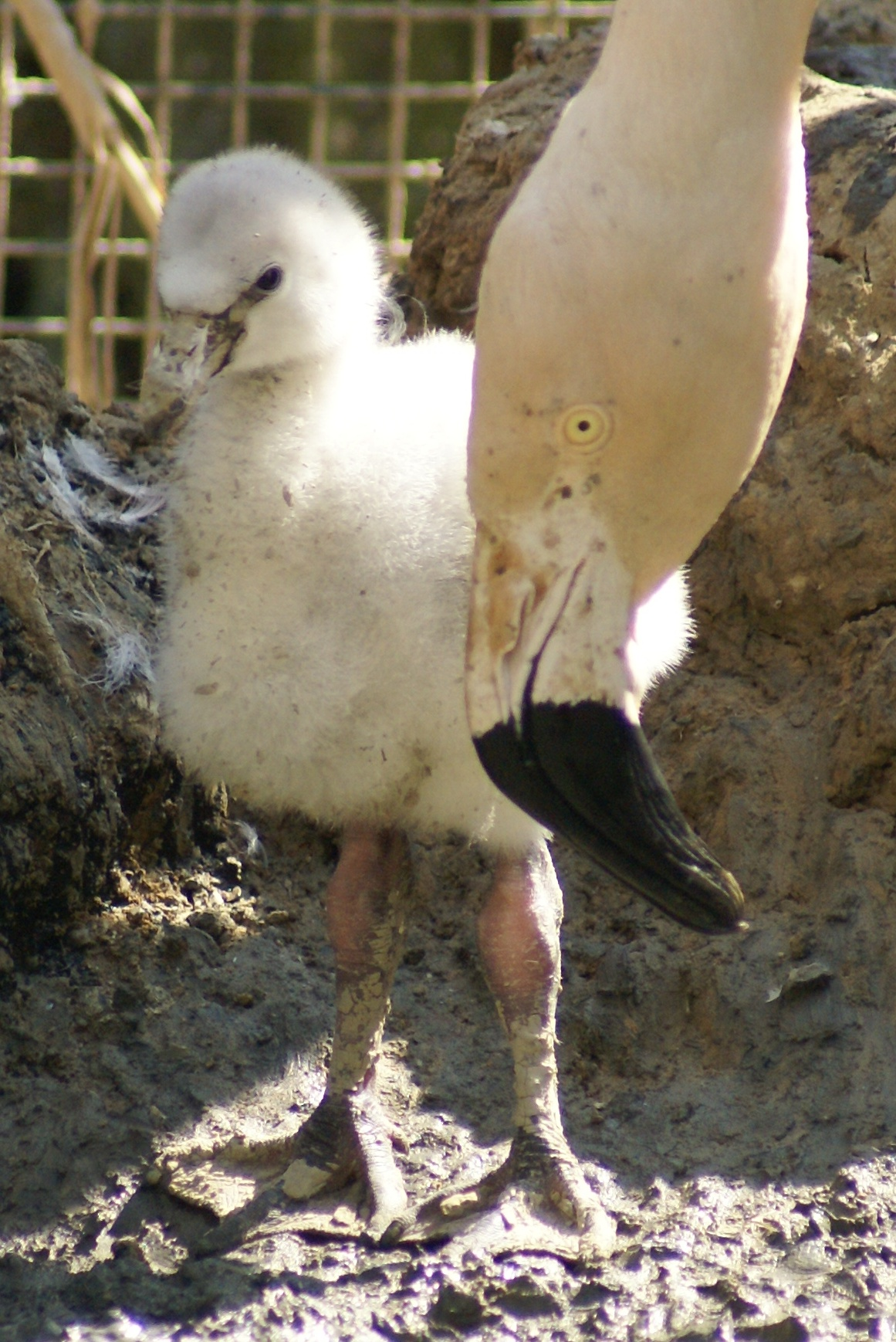 Chilean Flamingo (Phoenicopterus chilensis), a few days old, Tiergarten Bernburg, Germany